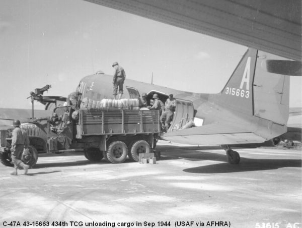 C-47 of the 72d Troop Carrier Squadron at RAF Aldermaston, World War II. Source: "History and Units of the United States Air Forces In Europe", CD-ROM compiled by GHJ Scharringa, European Aviation Histoical Society, 2004. Image source listed as United States Army Air Forces via National Archives